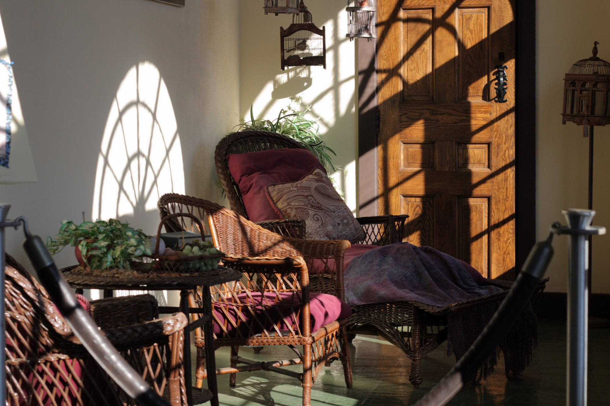 The restored sleeping porch of Heublein Tower in Talcott Mountain State Park, Connecticut.